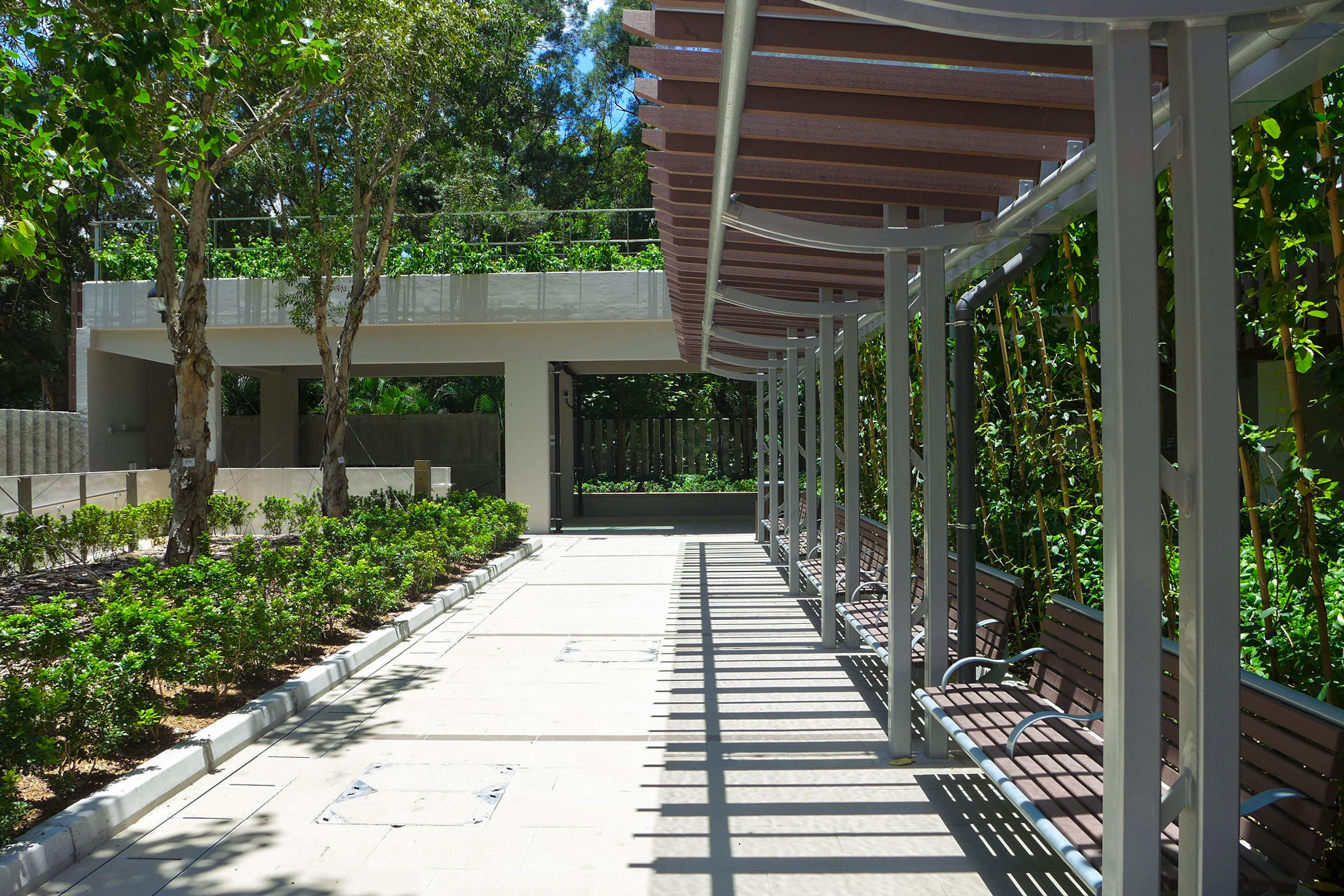 Wang Fu Court